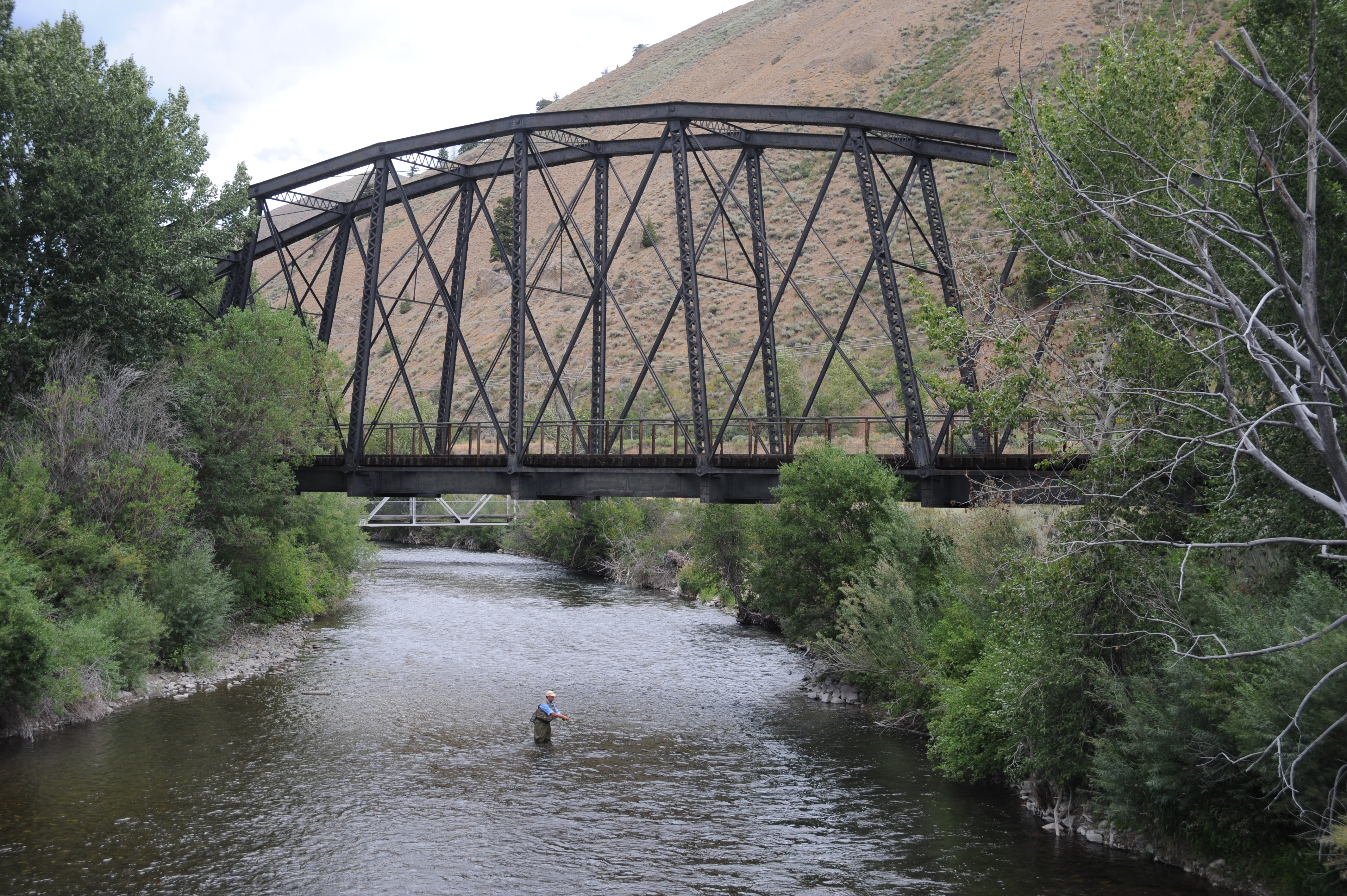 Picture of the Gimlet Bridge in Blaine County Idaho